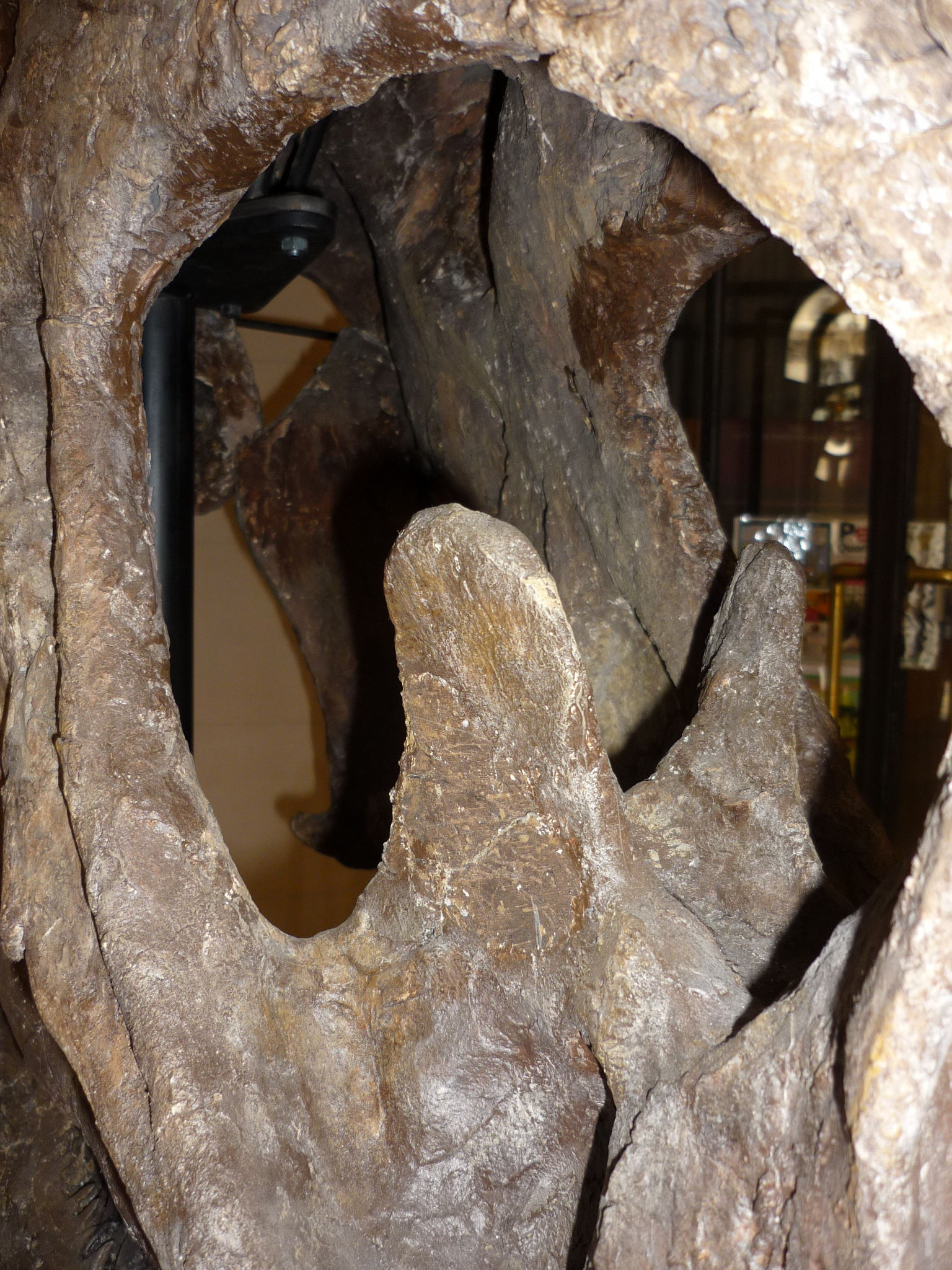 Nasal cavity of Triceratops T. horridus, Institut de paléontologie humaine, Paris, France